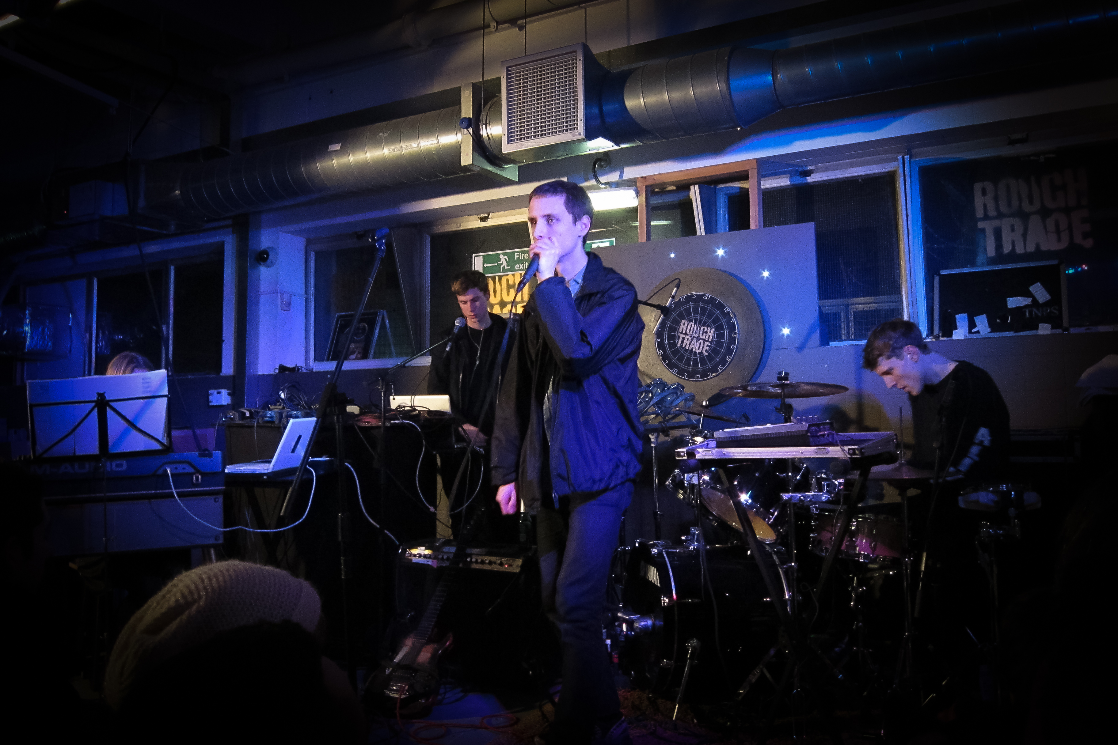 At Rough Trade East, 19th January 2010